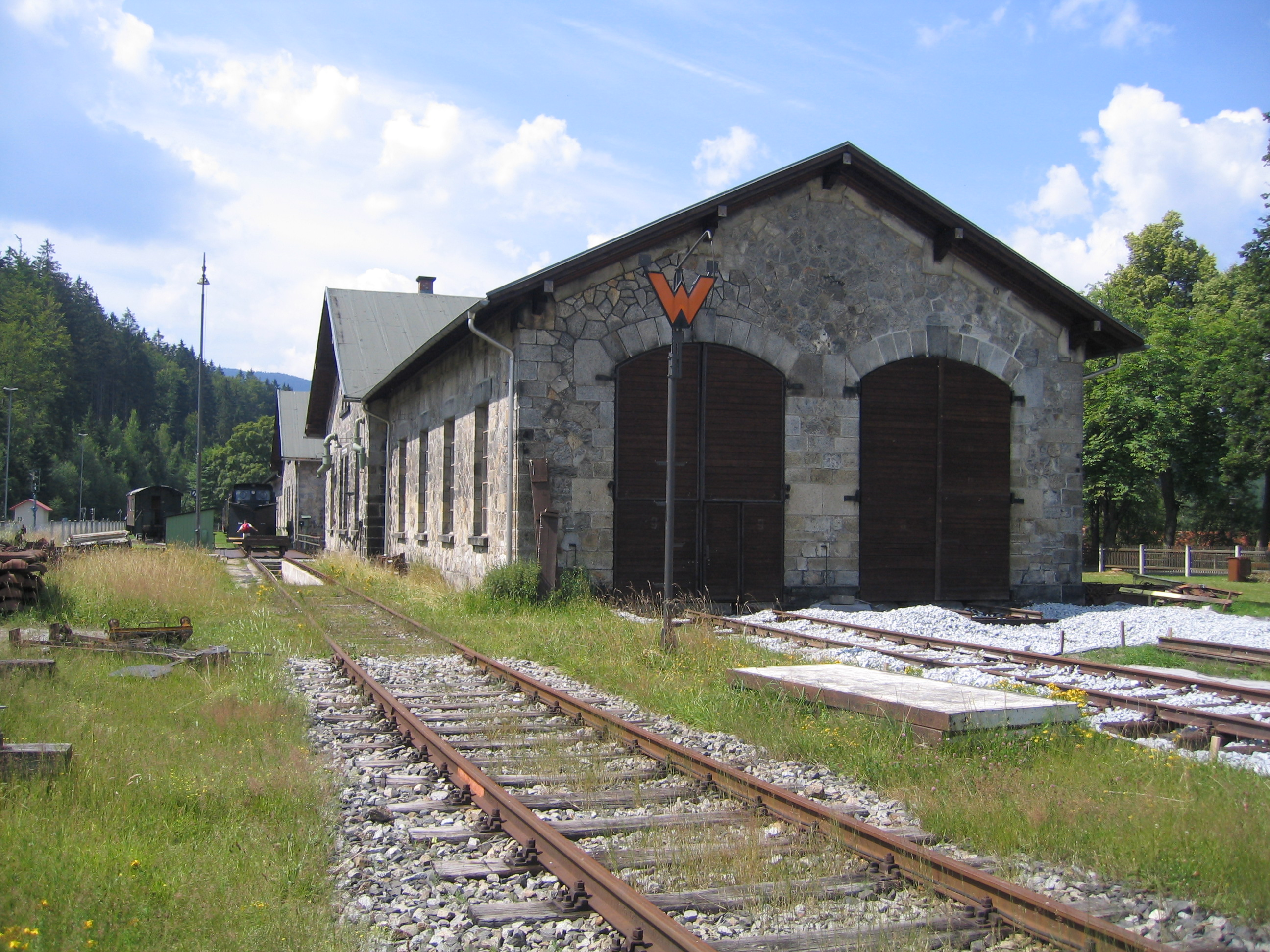 Part of the locomotive shed at Bayrisch Eisenstein, now home to the Bavarian Localbahn Museum, a railway museum in Germany.